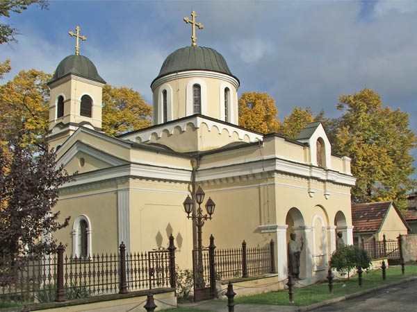 Serbian Orthodox Church Saint Paul in Petrovaradin, Serbia/L'église orthodoxe serbe Saint-Paul Apôtre à Petrovaradin, Serbie